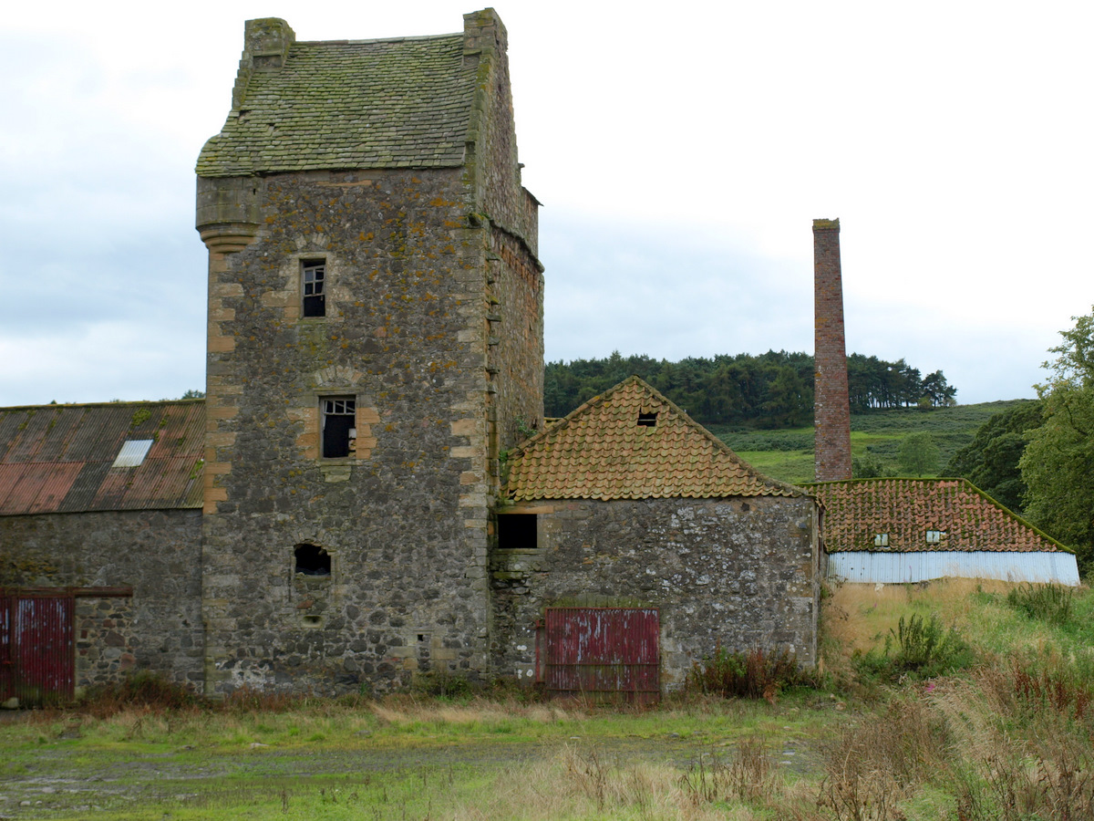 Ancient farm built around Collairnie Castle near Dunbog, North Fife.